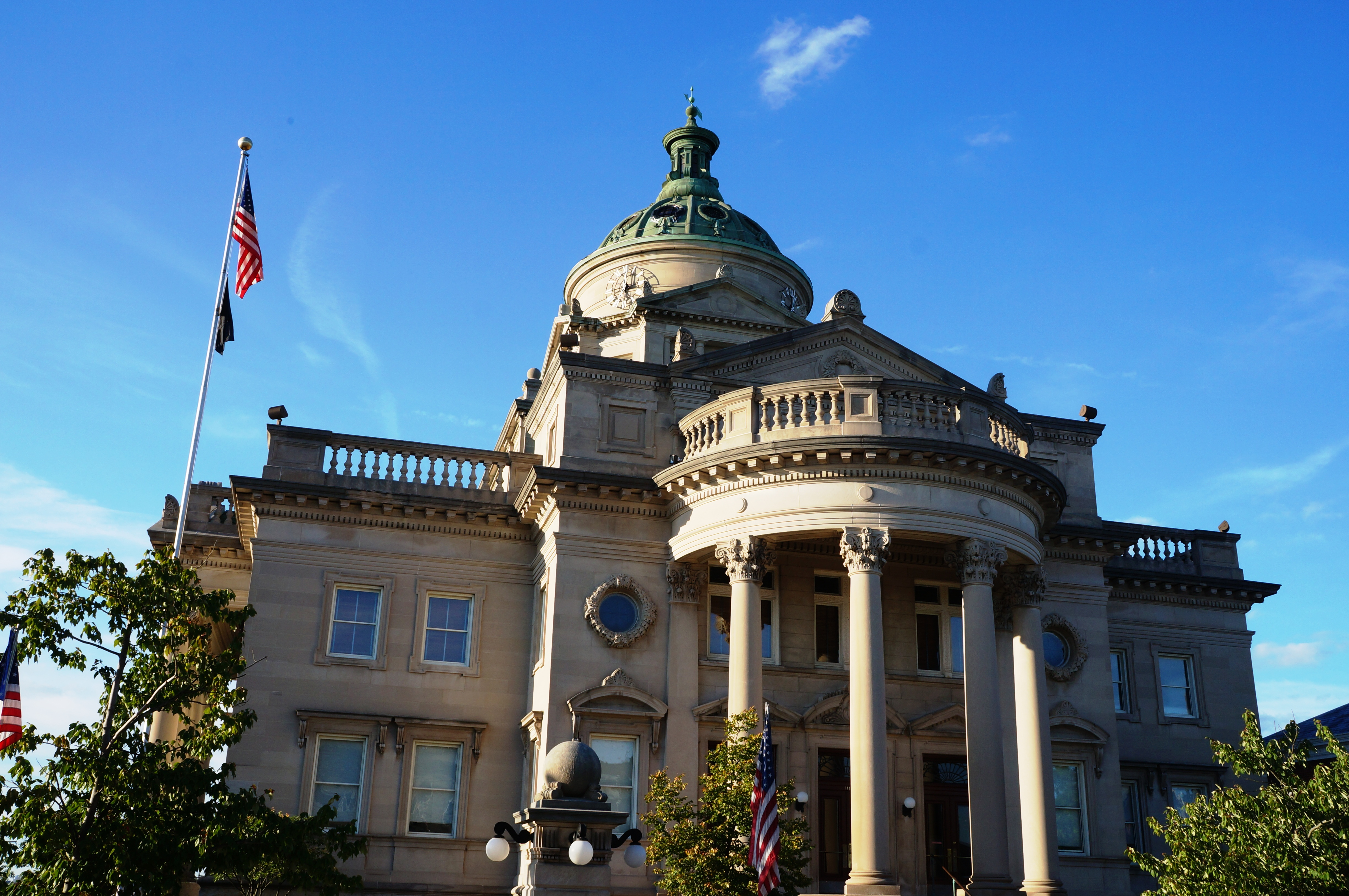 Somerset County Court